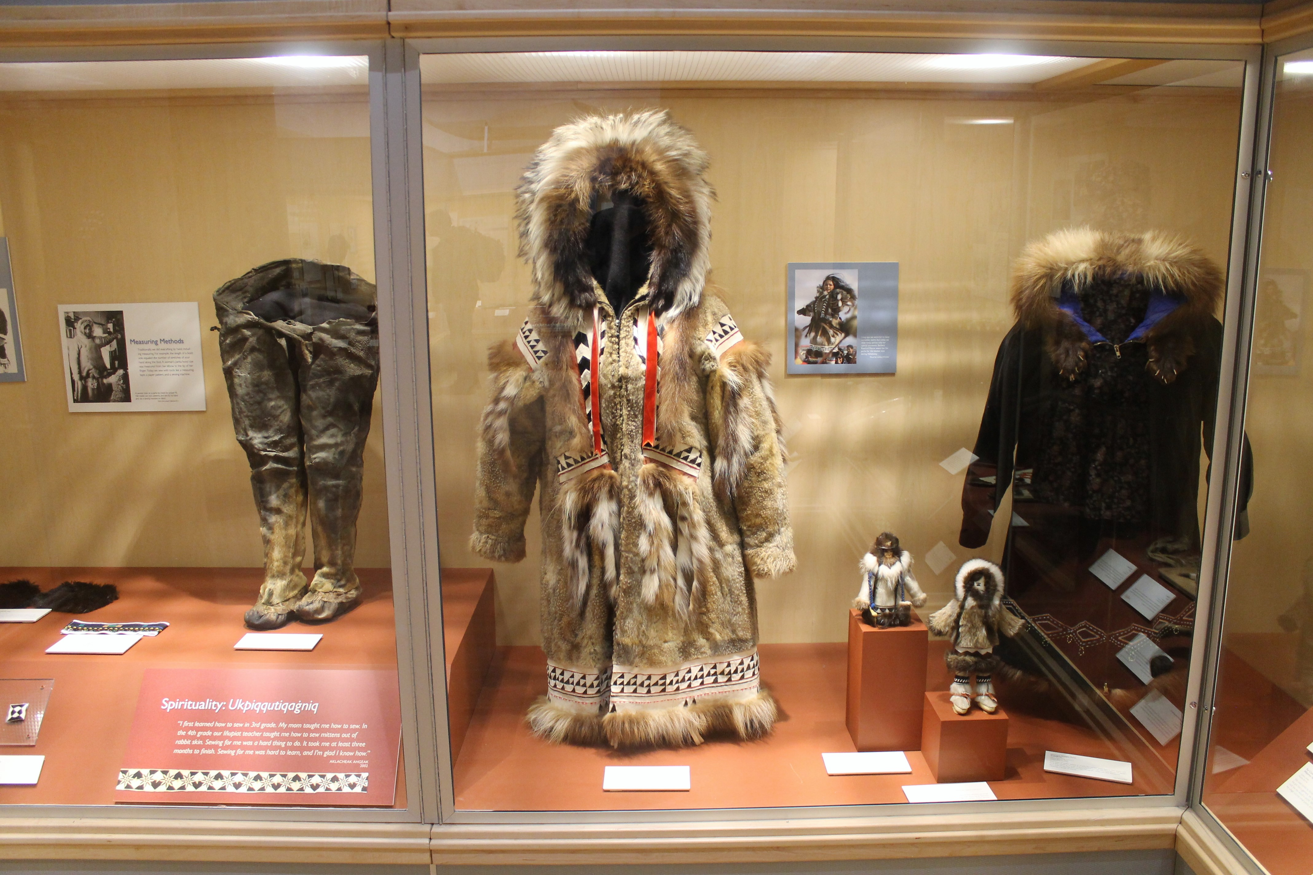 Traditional Clothing at Iñupiat Heritage Center in Barrow, July, 2018.